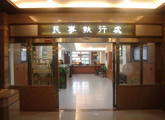 Inside of Yilan Regional Court, Taiwan